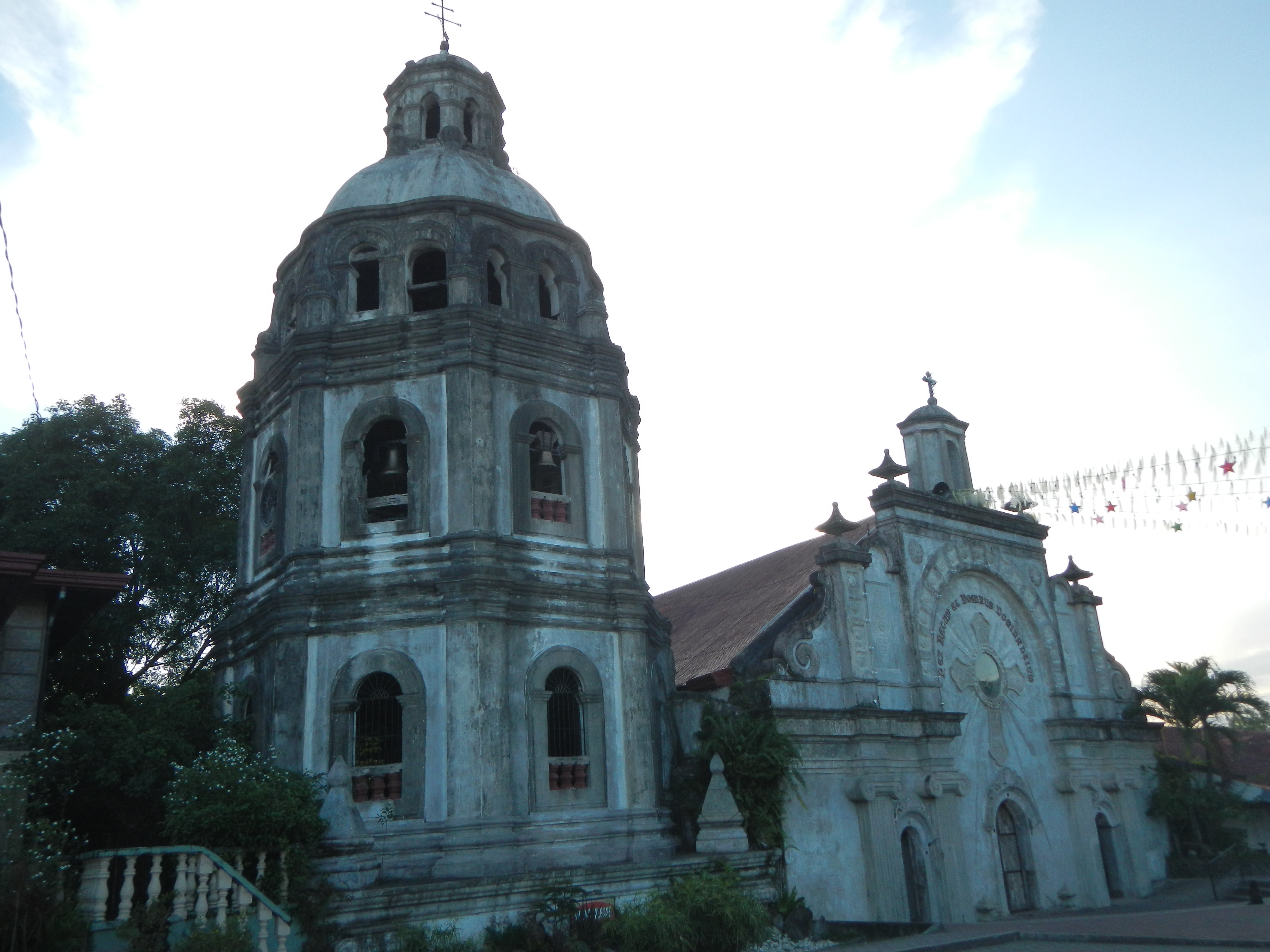 Bacolor, Pampanga[1] San Guillermo Parish Church[2]